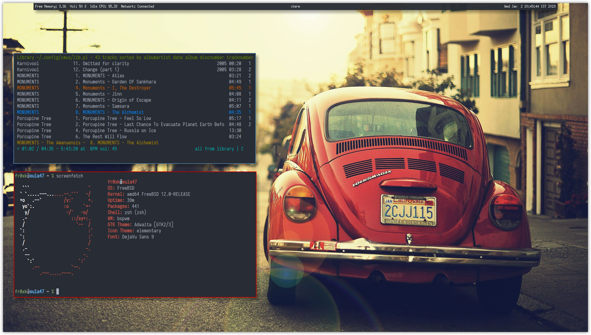 FreeBSD 12 desktop with bspwm